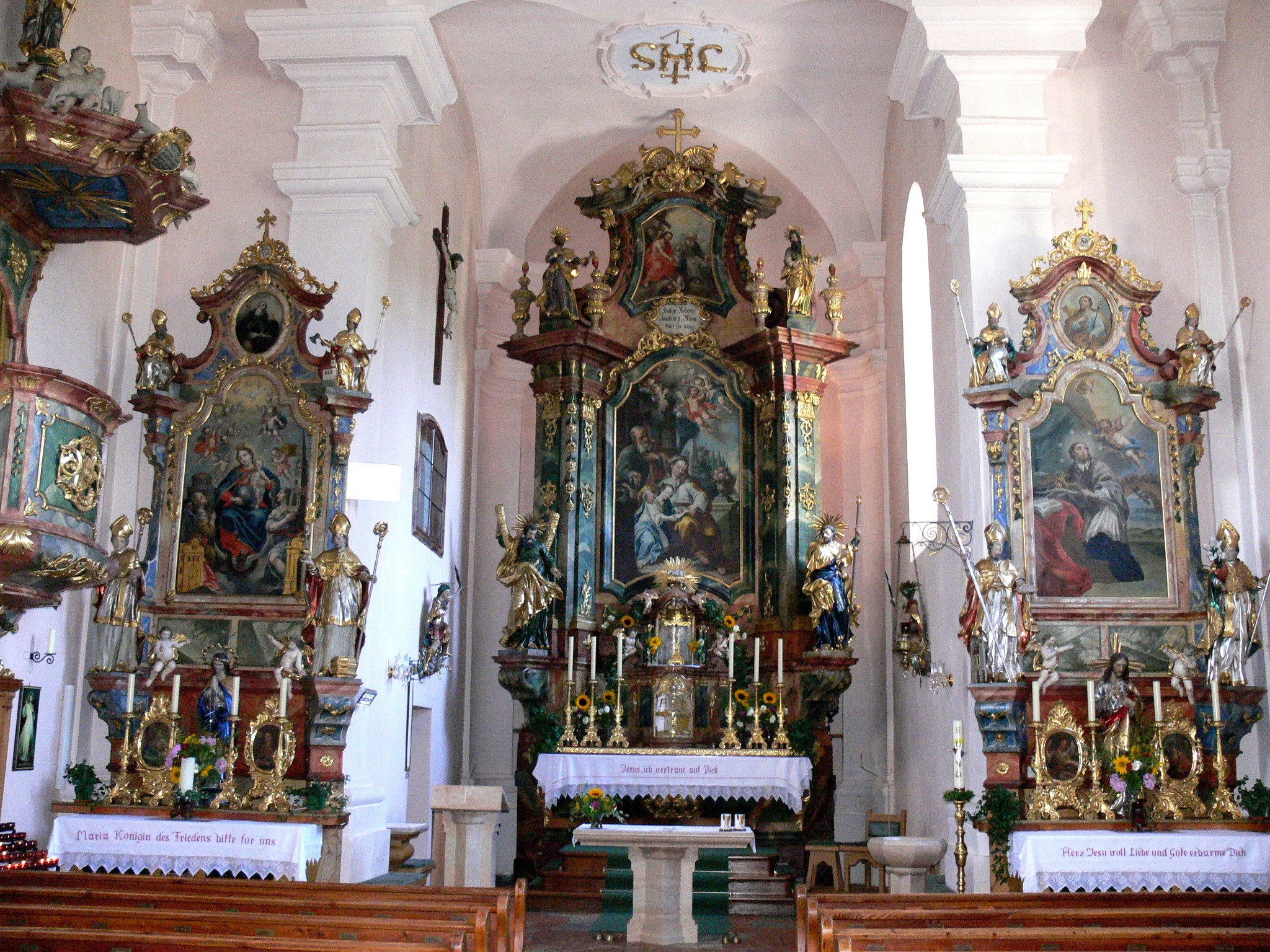 Annaberg-Lungötz ( Salzburg/Austria ). Saint Anne parish church ( 1752 ) - Interior.